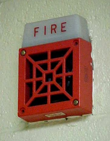 Wheelock 7002 inside Miller Hall at James Madison University, prior to mid-2000's renovations.